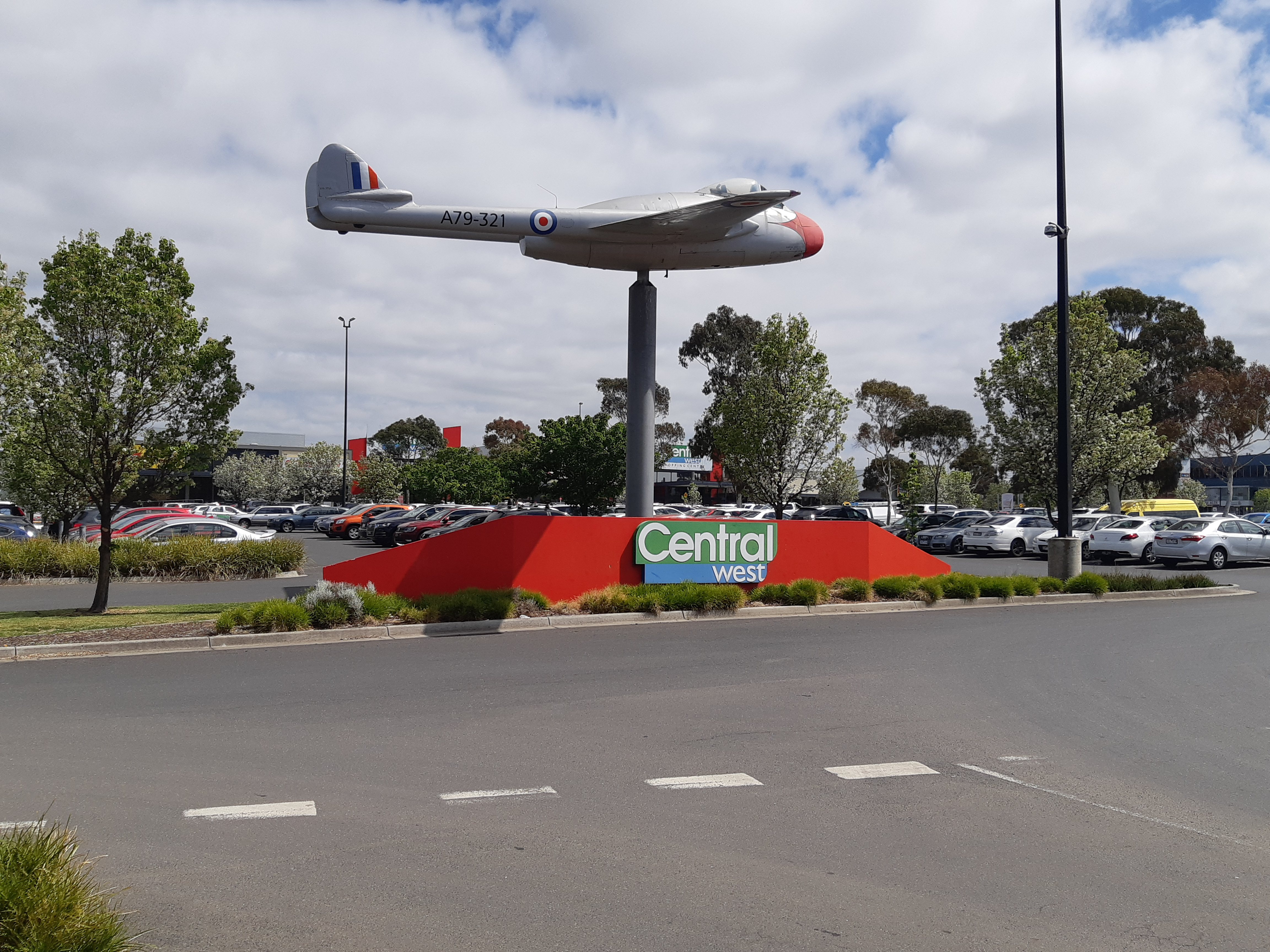 CentralWest SC Footscray